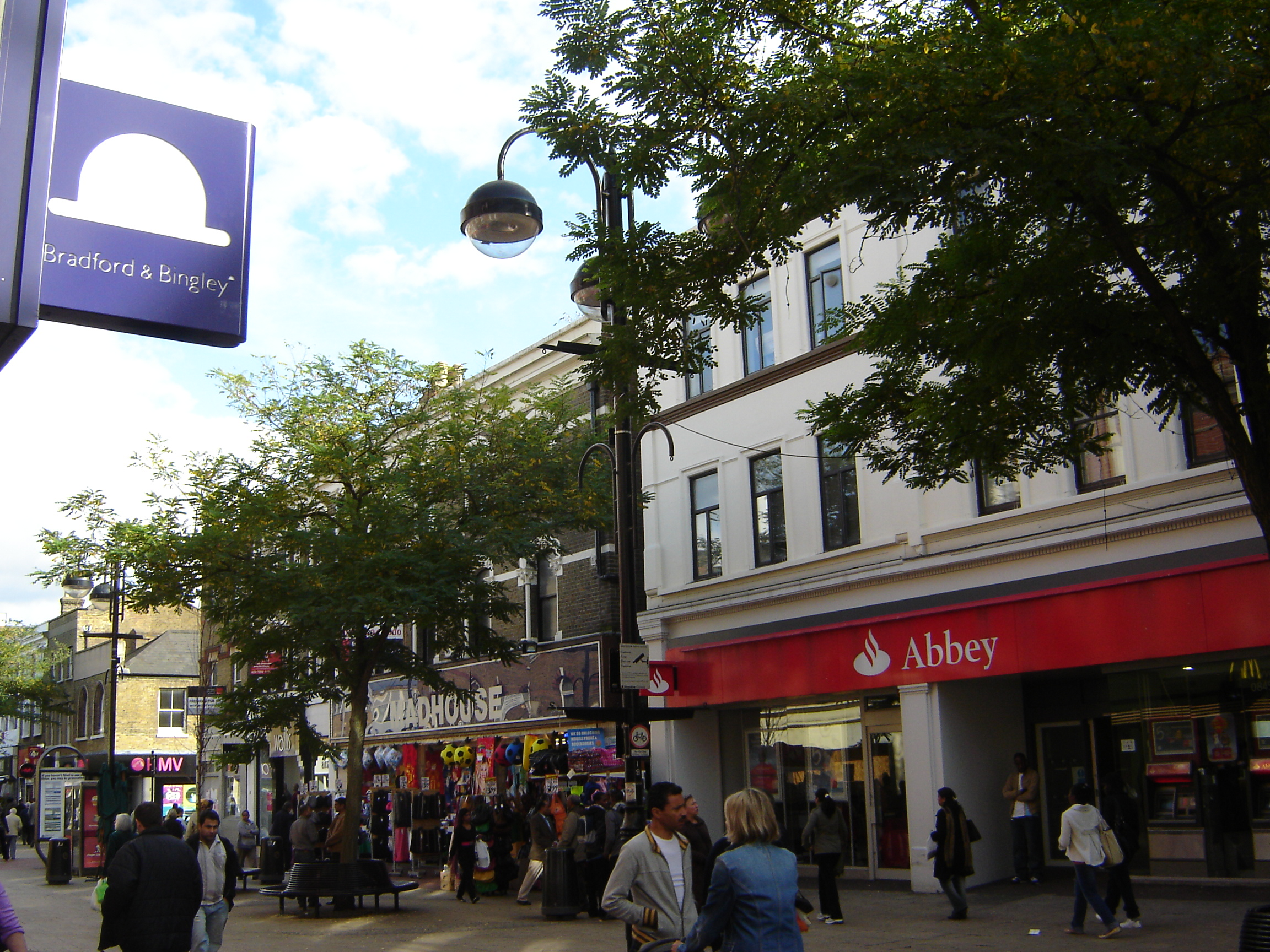 An Abbey branch opposite a Bradford and Bingley branch on Hounslow High Street, both banks are now subsidaries of the Santander Group.